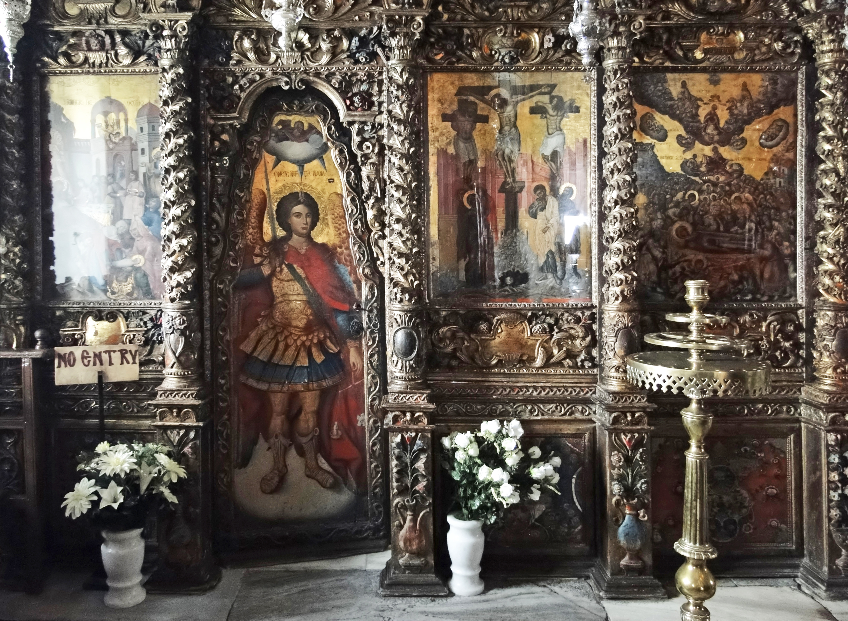 Detail of the iconostase of the church of the Monastery of Panagia Tourliani, Ano Mera, Mykonos, Greece